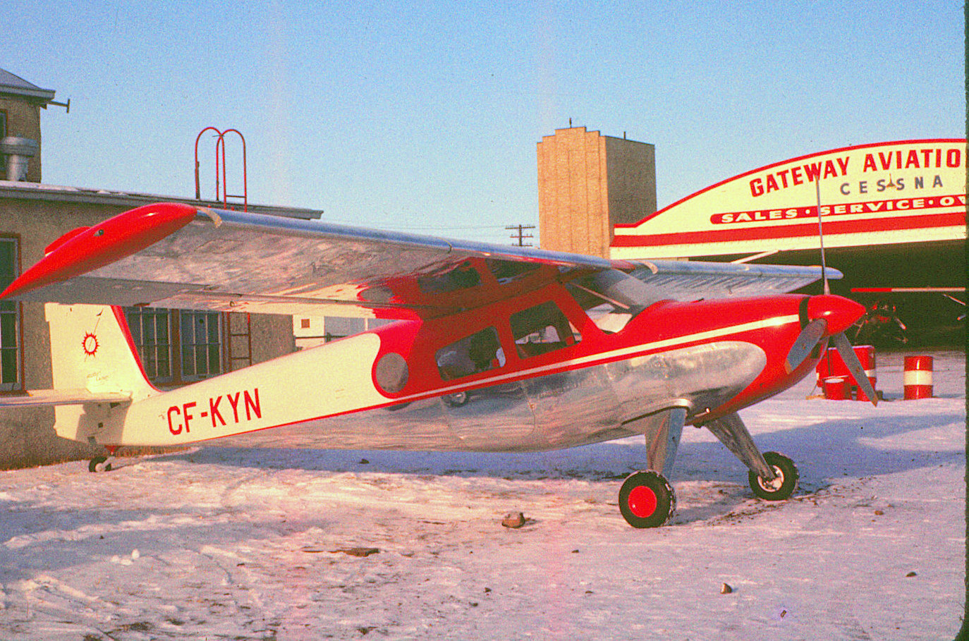 A very short take-off and landing design. It seems very advanced for its time.